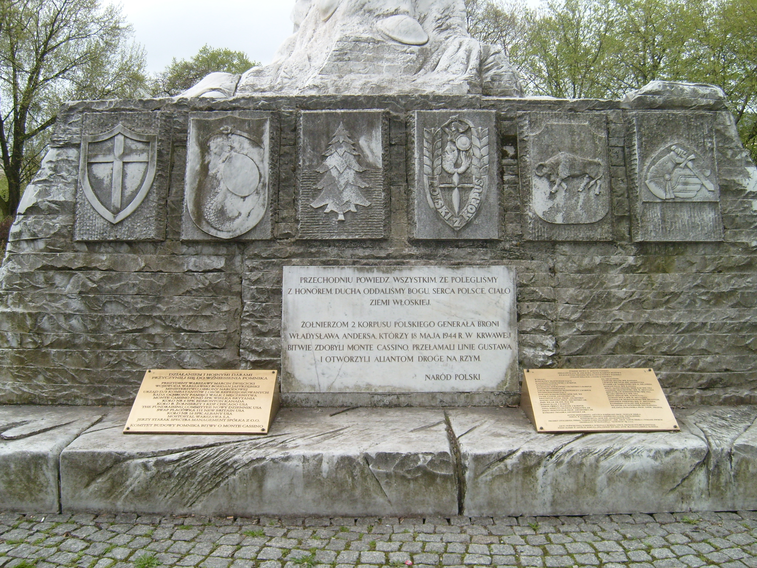 Back of the Monte Cassino Monument in Warsaw, Poland.